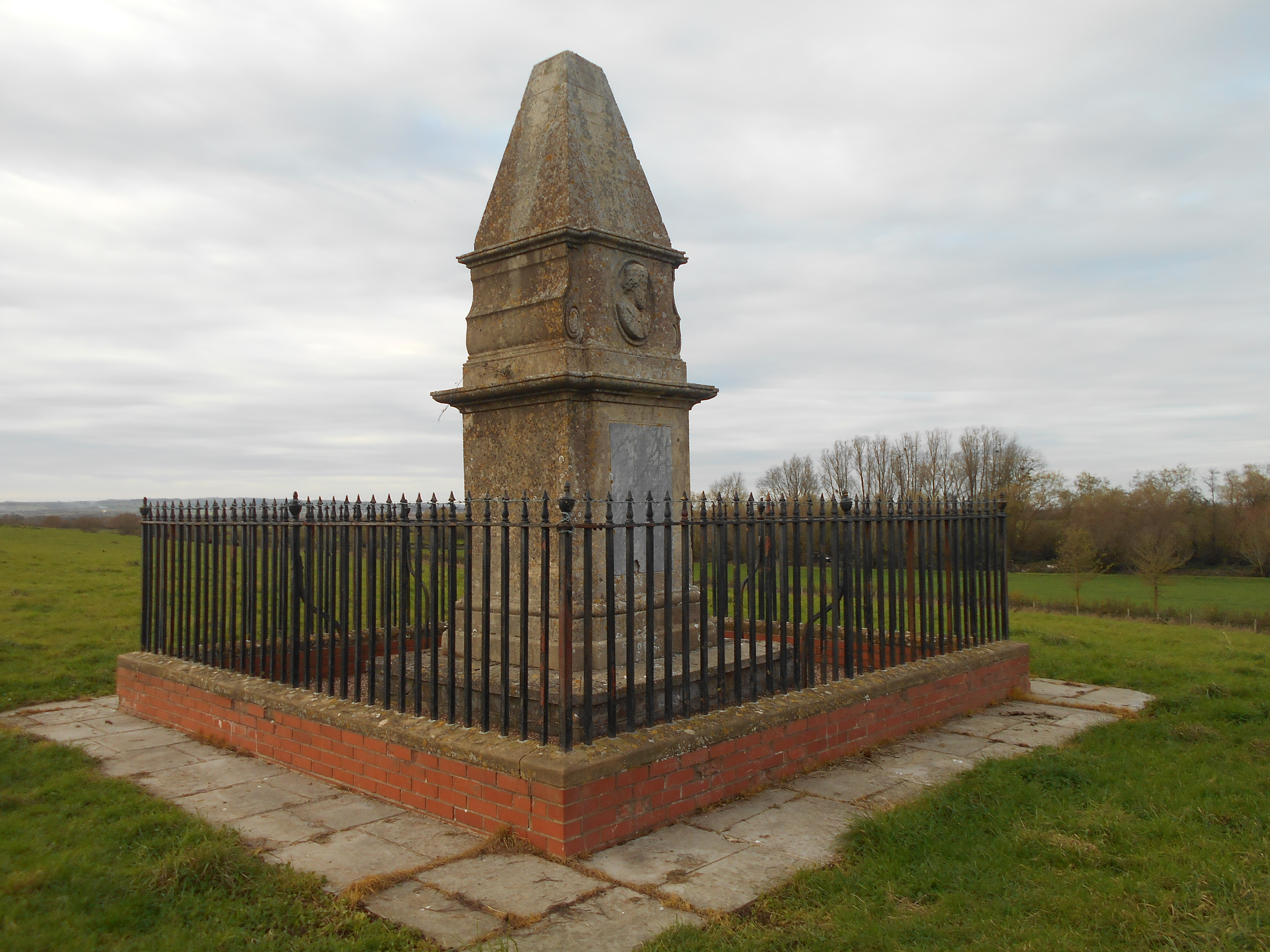 King Alfred's Monument, Athelney, Somerset. Built in 1801 for the squire John Slade.